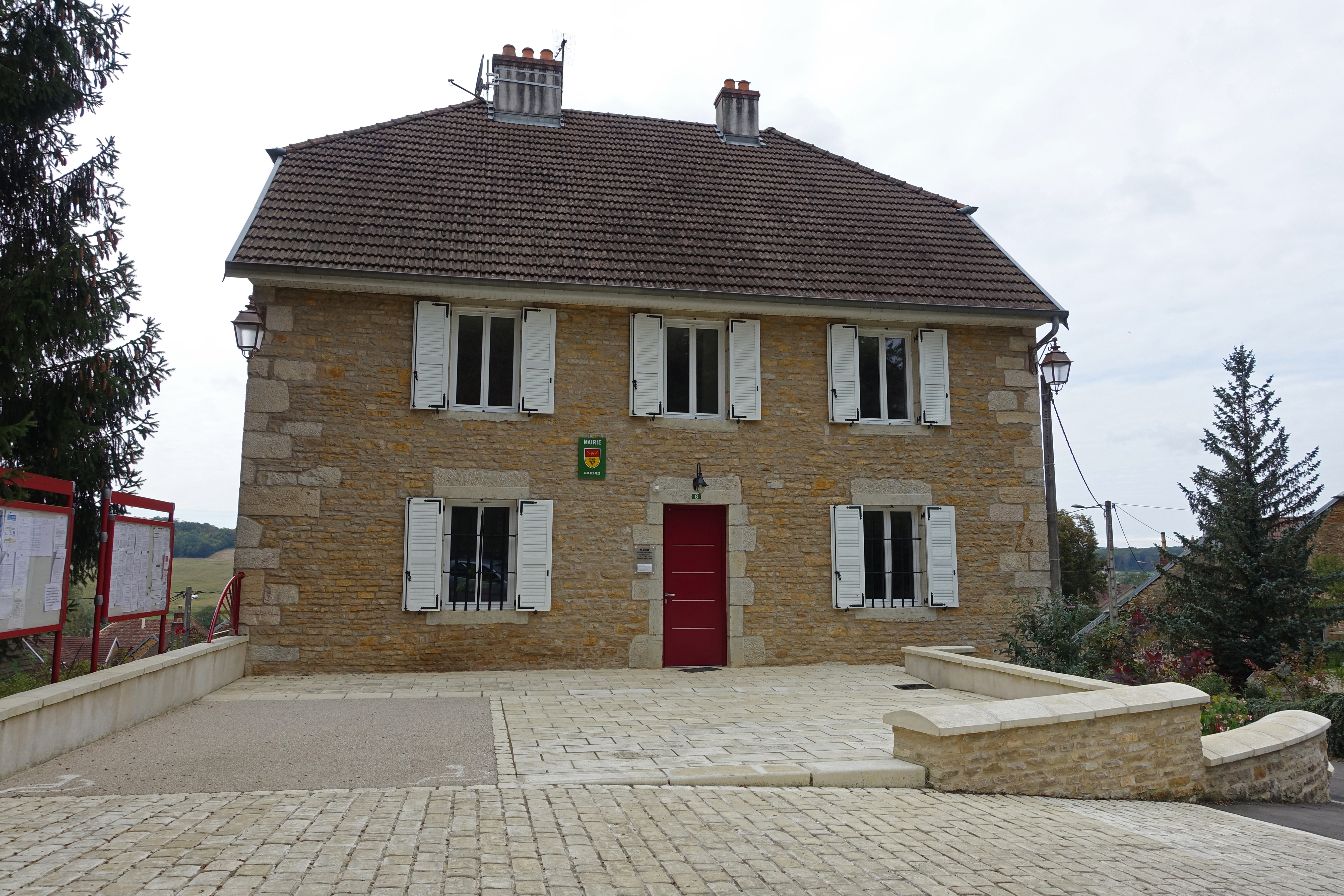 Town Hall of Vaux-les-Prés, France